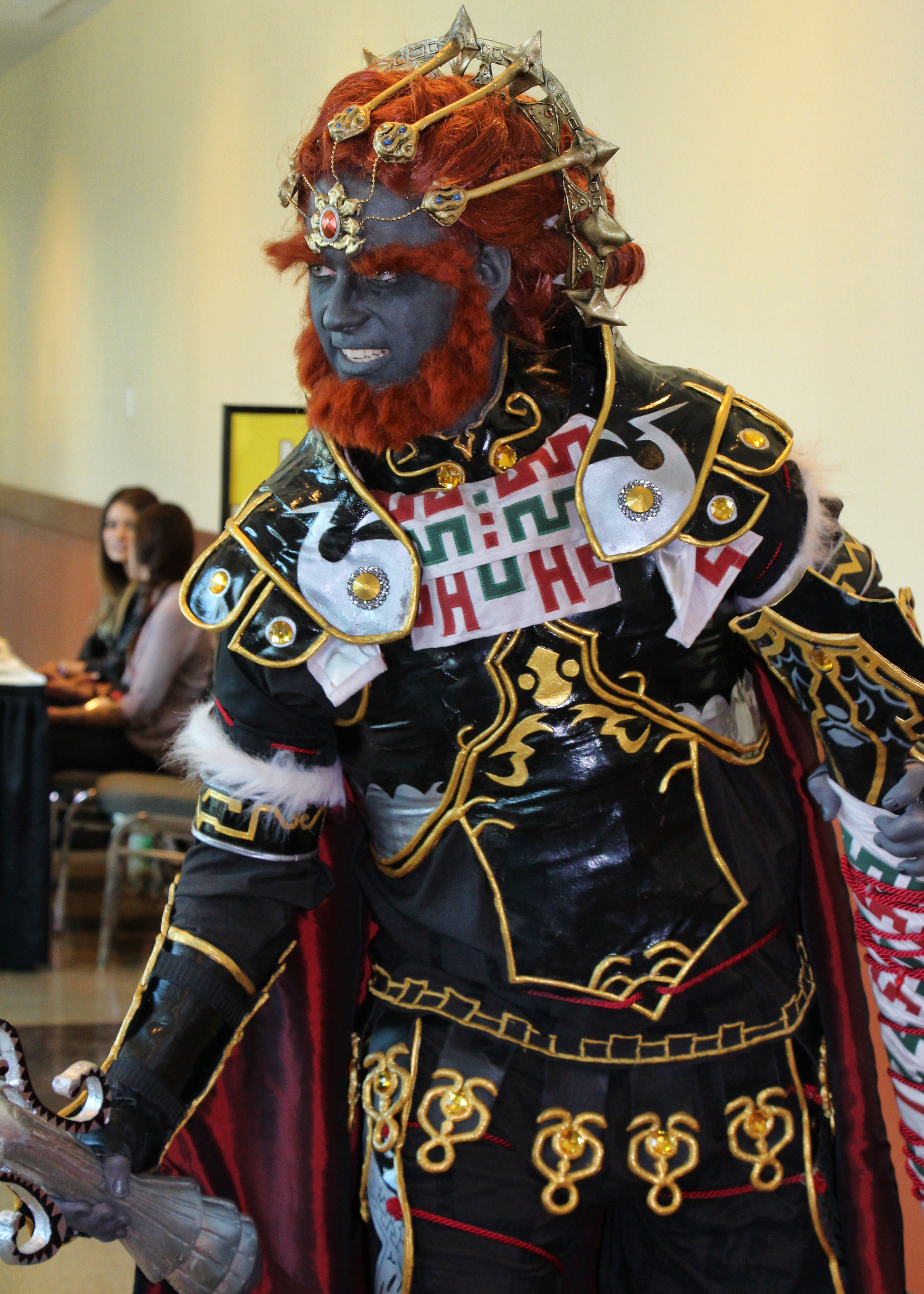 Ganondorf Twilight Princess 2015 Calgary Expo – Calgary Comic & Entertainment Expo